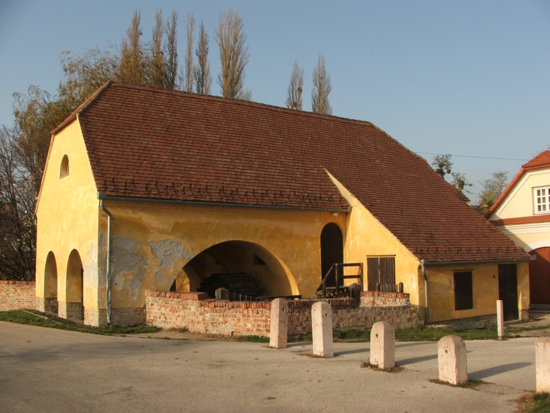 "Pötörke" watermill in Tata.